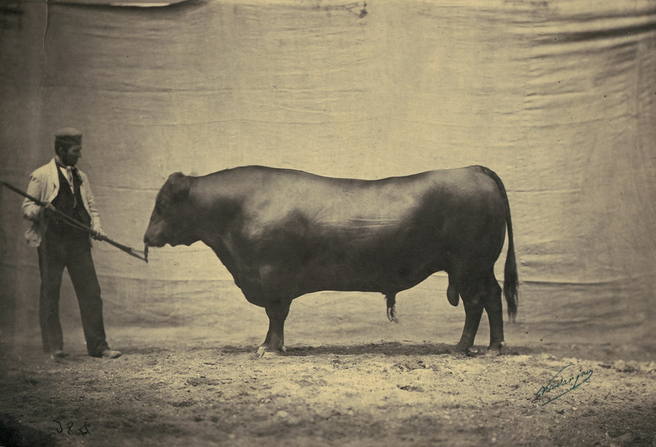 Angus bull and owner at an agricultural fair, Paris. 1856. Salt print varnished with gelatin and tannin. 19 x 28 cm. Photographer's signature stamp and number in the negative in lower left, mounted to board (slightly soiled, warped), annotated in German in ink below the image on the mount.